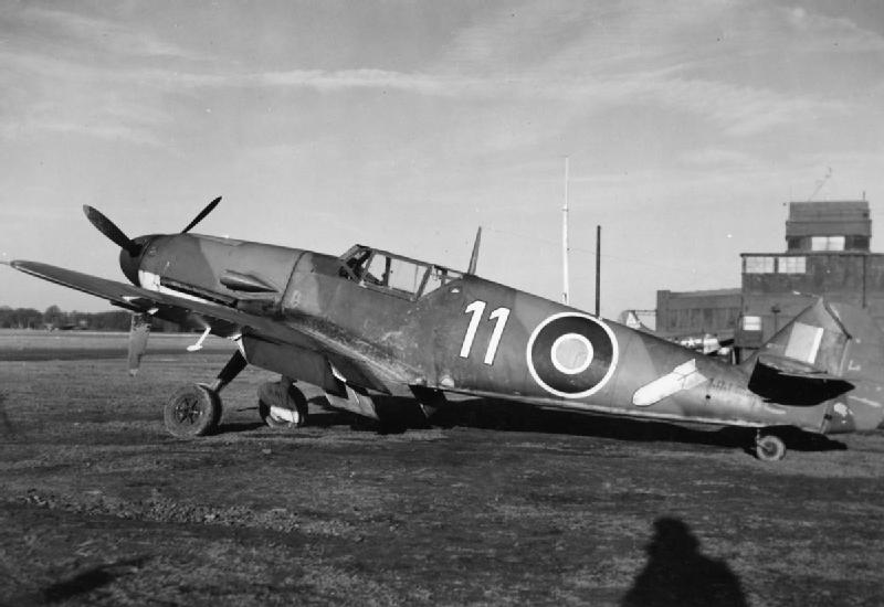 A captured German Messerschmitt Bf 109 F-4 (RAF serial NN644) of No. 1426 (Enemy Aircraft Circus) Flight based at Collyweston, Northamptonshire (UK), parked near the control tower at Bassingbourn, Cambridgeshire, during the unit's 11th tour of operational stations giving flying demonstrations. Although painted in RAF colours, the aircraft retains the 'White 11' and bomb symbol markings of its former Luftwaffe unit, 10.(Jabo)/JG 26.